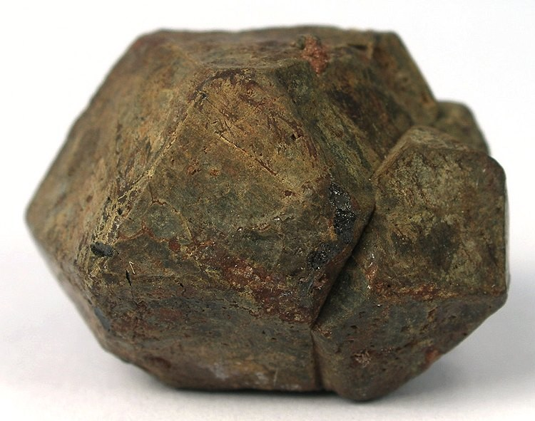 Betafite Locality: Silver Crater Mine (Basin Property), Faraday Township, Bancroft District, Hastings County, Ontario, Canada (Locality at ) Size: 2.7 x 2.4 x 2.0 cm. A fine, floater cluster of sharp and euhedral, brownish betafite crystals with moderate lustre from the Silver Crater Mine of Bancroft, Ontario, Canada. Textbook crystal form. This very fine old-time piece was collected in the 1950s.